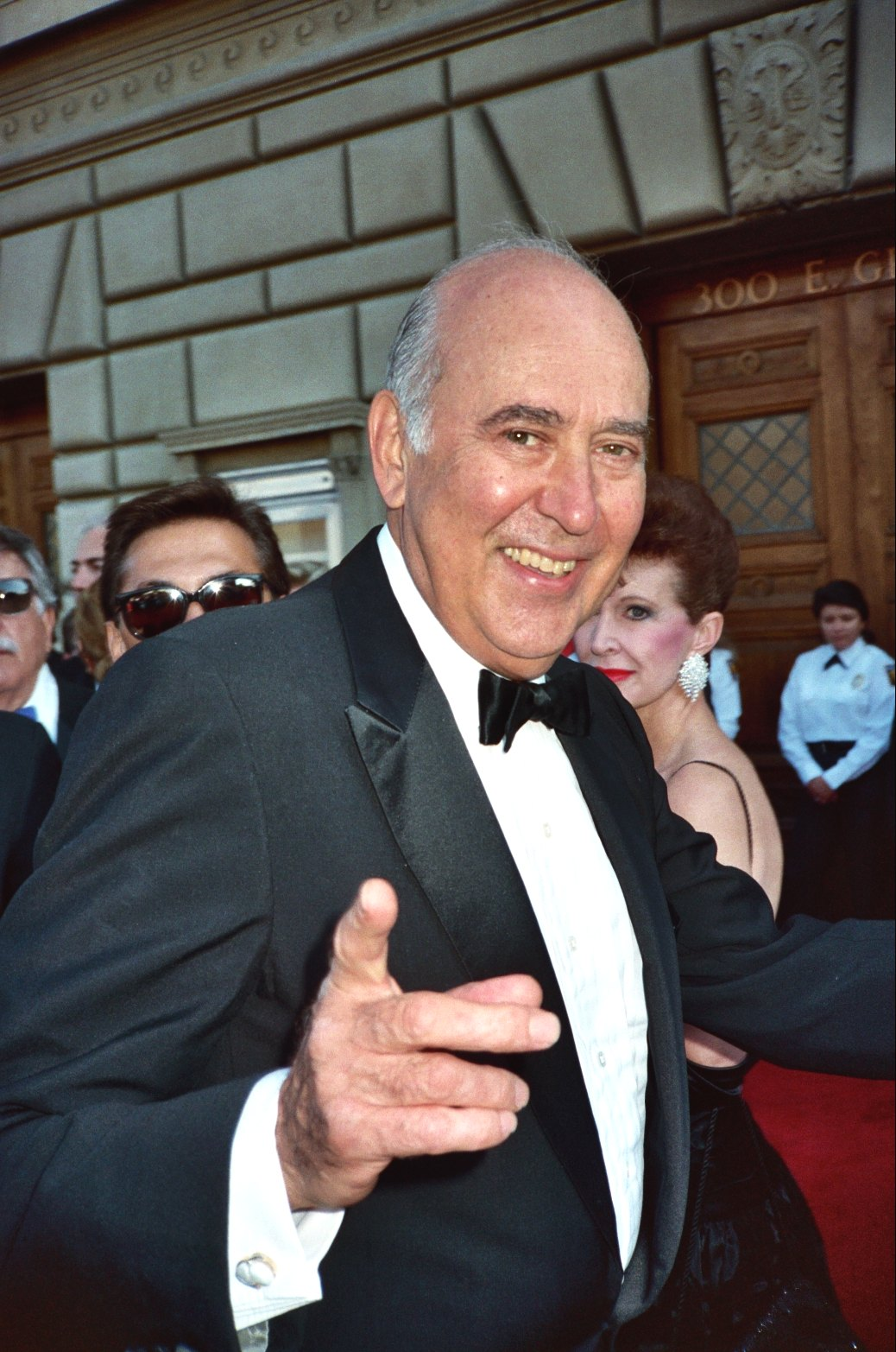 Carl Reiner at the 41st Emmy Awards